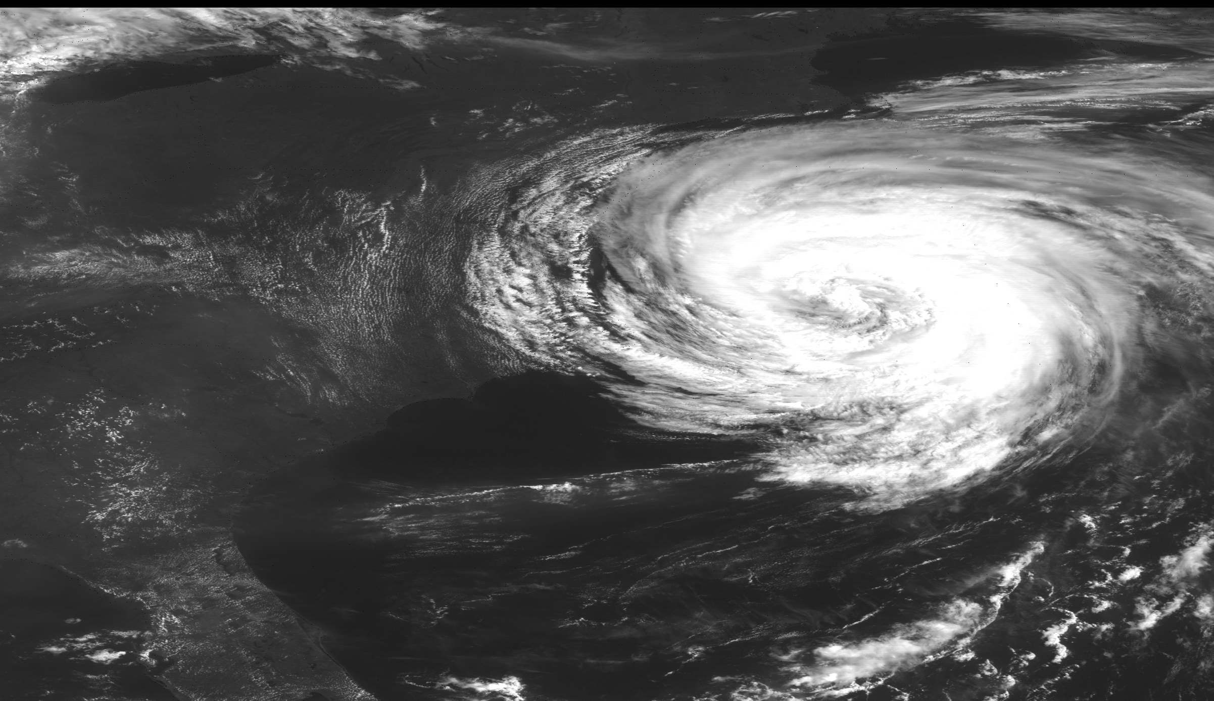 Image from the GOES-9 weather satellite of Hurricane Felix.